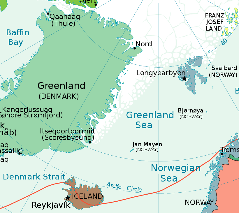 Map of the Greenland Sea